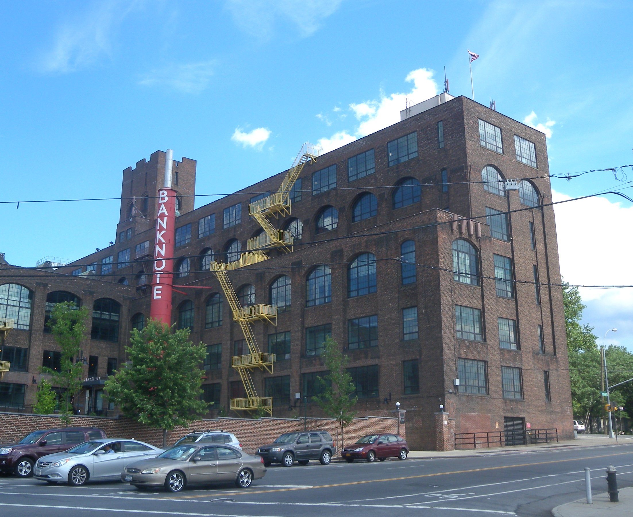 Looking southeast at banknote building on a mostly sunny early afternoon. NYTimes